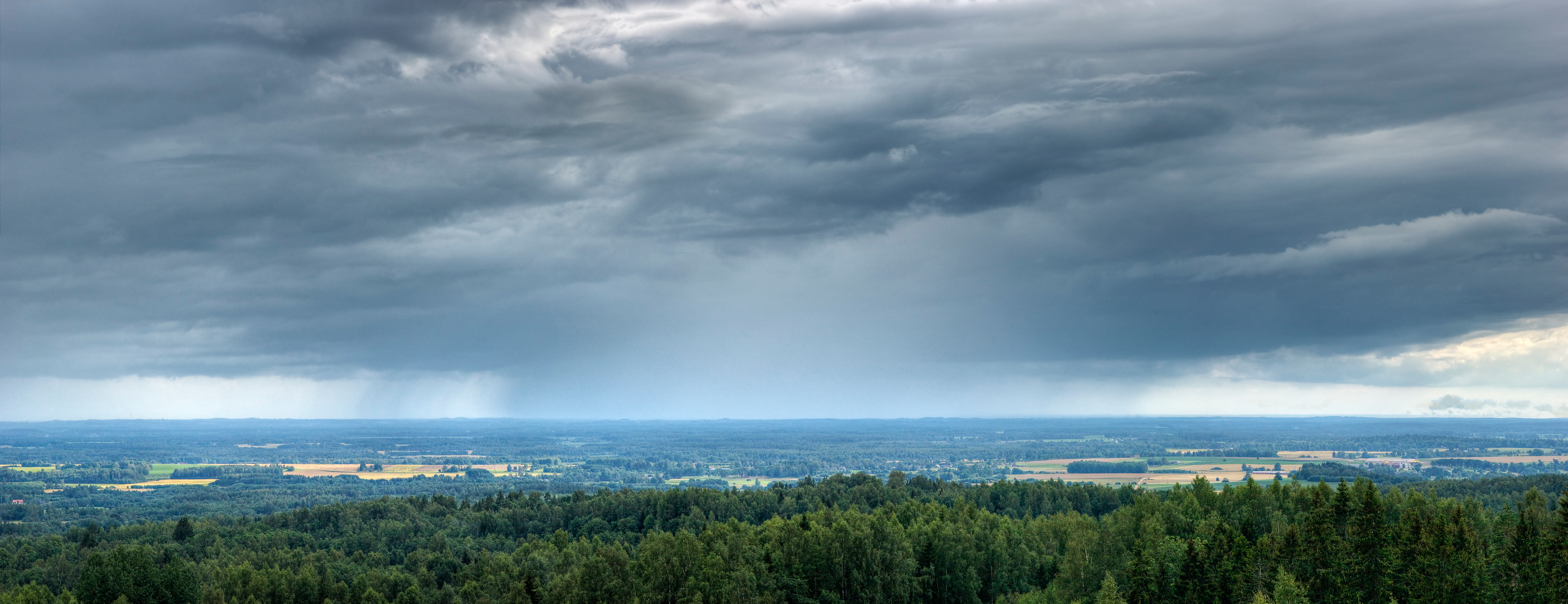 Harimäe tower, view to south